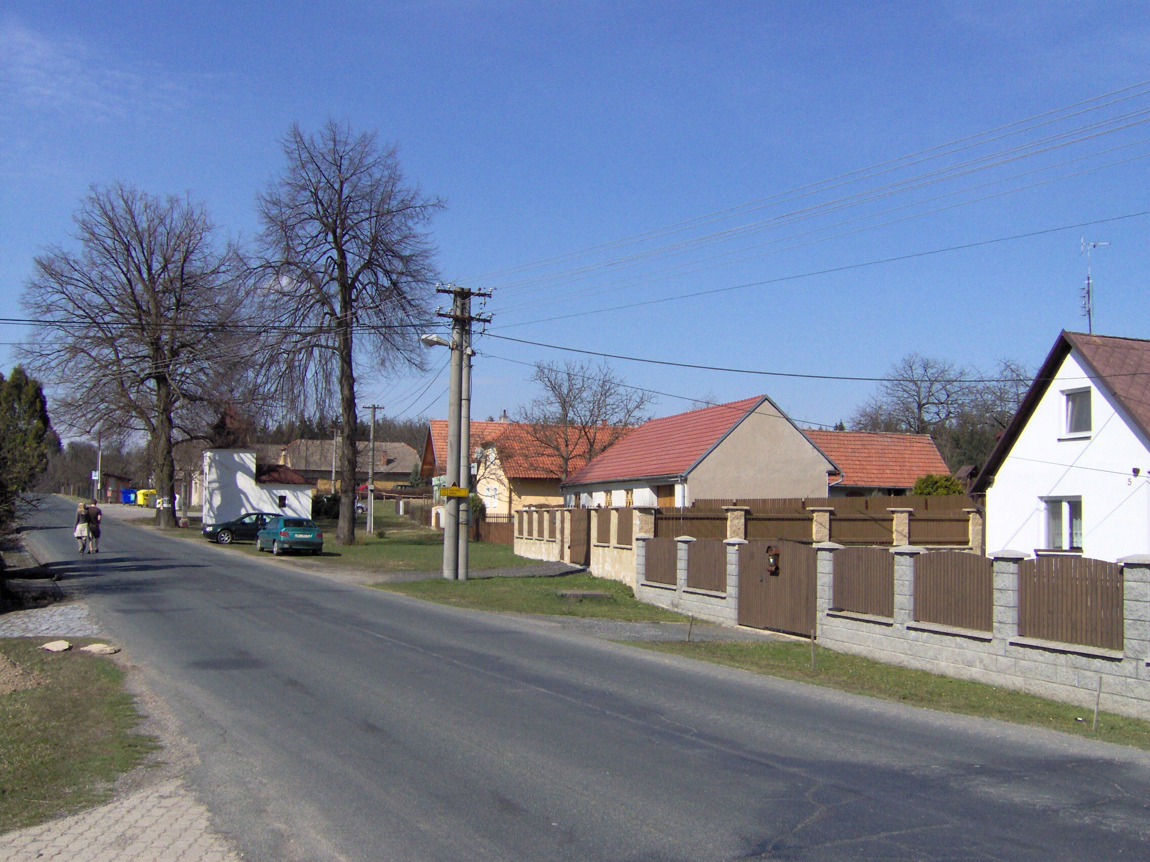 Ludvíkov village, Žďár nad Sázavou District, Czech Republic